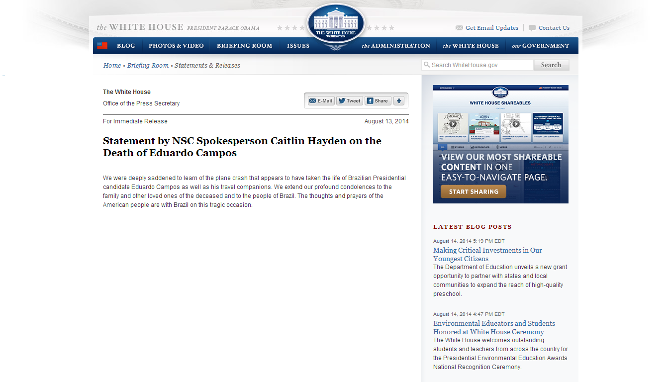 On August 13, 2014, the White House released an official statement about the tragic fall of the Cessna 560 Citation XLS + aircraft, in Santos (Brazil). In this incident seven people died, including the candidate for president of Brazil, Eduardo Campos.